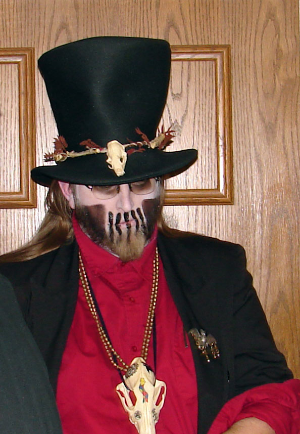 Mind's Eye Theatre : the character Papa Sallow Rose (Acolyte Vodoun), Camarilla's conclave, Milwaukee 2006